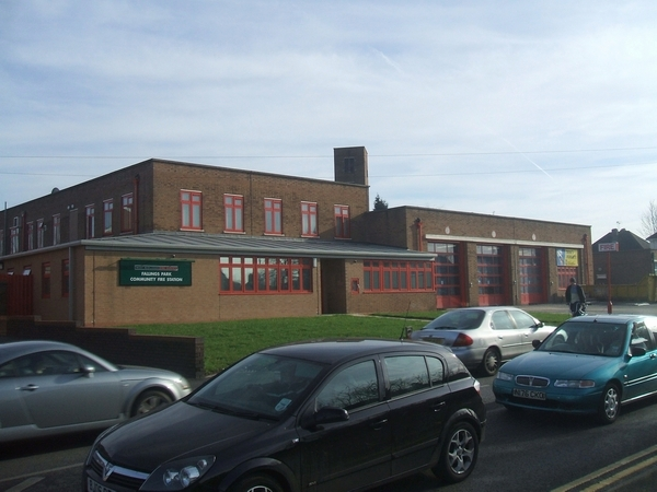 Fallings Park Community Fire Station Situated at a busy intersection the fire station is handily placed to serve the North of Wolverhampton. The low level extension is a recent addition.